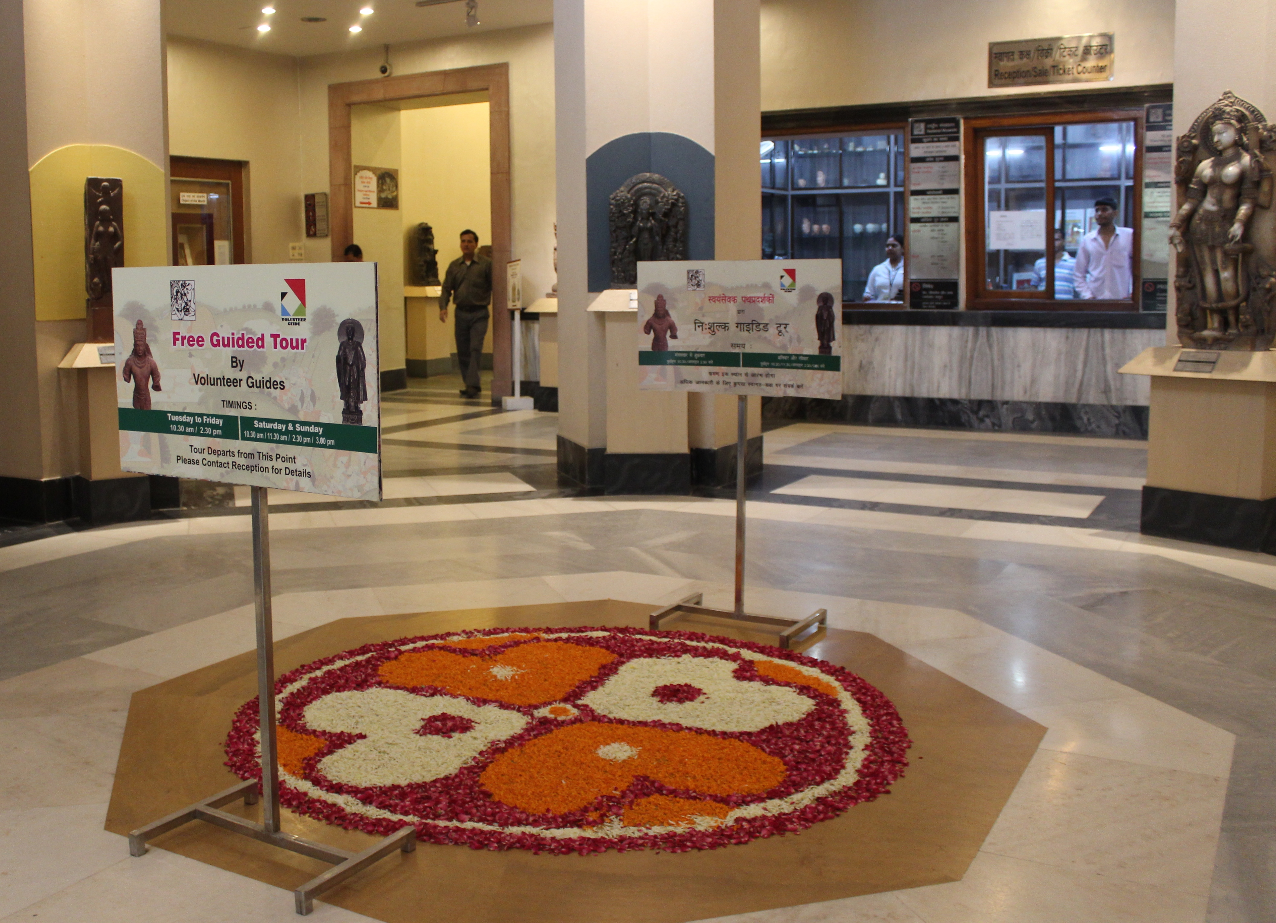 National Museum, New Delhi main reception hall